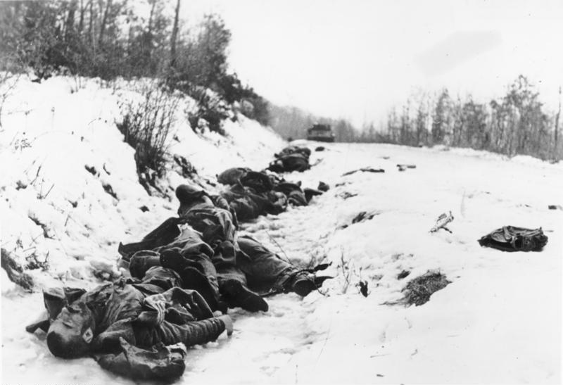 This description has been identified as biased or incorrect: Original Nazi-propaganda image descriptonScherl Bilderdienst: Von den schweren Angriffskämpfen unserer Truppen in Ungarn Bei den Angriffskämpfen im ungarischen Raum, bei denen unsere Truppen gegen den sich zäh wehrenden Feind ständig Boden gewinnen, erleiden die Bolschwisten schwerste blutige Verluste. Das Kampffeld ist an vielen Stellen von toten Sowjets regelrecht übersät. PK-Aufnahme: SS-PK-Kriegsberichter Grönert 23.1.1945 [Herausgabedatum] Information added by Wikimedia users.English (rough translation of original Nazi caption): Hungary, fallen Red Army-ists. From the tough combat strike of our troops in Hungary. In the offensive of our troops in Hungarian territory, our troops constantly win ground from the strong-resisting enemy, and the Bolsheviks suffer the heaviest bloody losses. Many positions on the battlefield are packed with dead Soviets